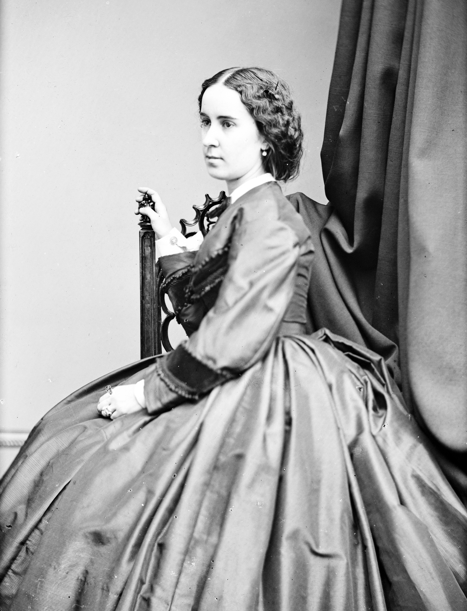 Clara Louise Kellogg CALL NUMBER: LC-BH82- 4694 A [P&P] REPRODUCTION NUMBER: LC-DIG-cwpbh-01620 (b&w copy scan) No known restrictions on publication. MEDIUM: 1 negative : glass, wet collodion. CREATED/PUBLISHED: [between 1855 and 1865] NOTES: Title from unverified information on negative sleeve. Actress. Forms part of Brady-Handy Photograph Collection (Library of Congress). FORMAT: Portrait photographs 1850-1870. Glass negatives 1850-1870. REPOSITORY: Library of Congress Prints and Photographs Division Washington, D.C. 20540 USA DIGITAL ID: (b&w scan) cwpbh 01620